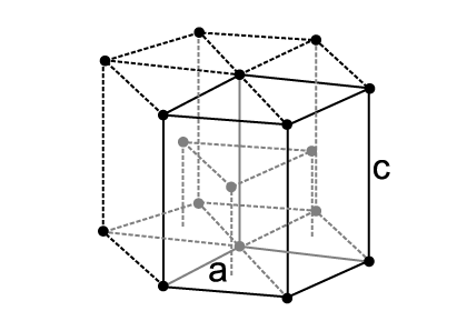 Hexagonal Close Packed